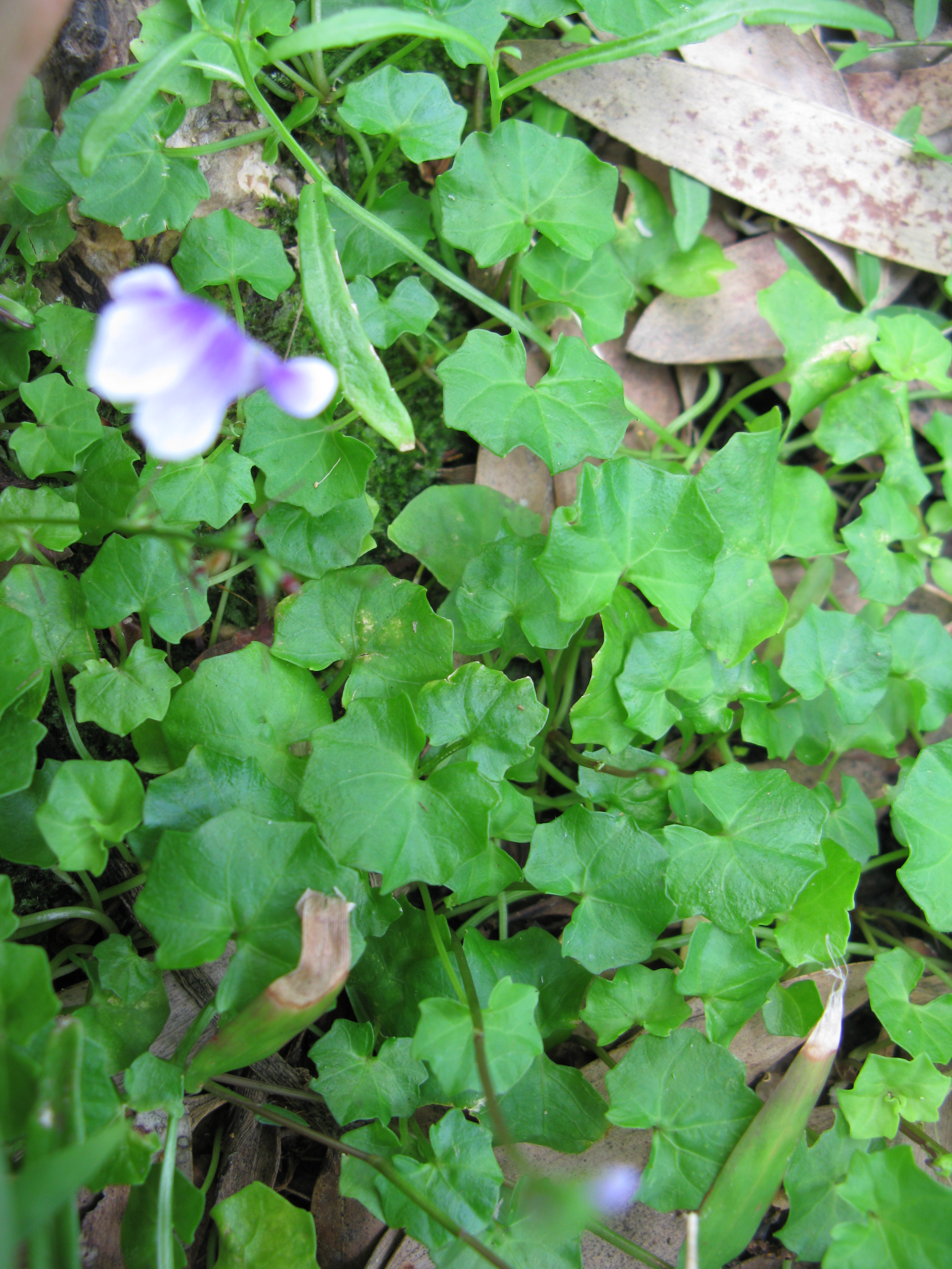 Native, warm-season, perennial, low-growing, mat-forming herb. Leaves form rosettes where the stolons root at the nodes. Leaves are broad kidney-shaped (forming a deep slit at the base), bluntly toothed and 30-45 mm wide. Flowers are violet towards the centre, grading to white at the margins. Flowering is from spring to autumn. Found in moist (often shady) places, such as swamps, woodlands and forests in near coastal situations. Native biodiversity. This form of native violet is commonly cultivated, but has only recently been recognised as a separate species to Ivy-leaved Violet (Viola hederacea). Of little importance to livestock grazing as it is very low growing. Tolerant of disturbance and light to moderate stocking rates.